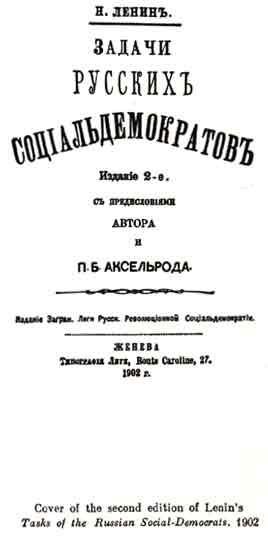 The Tasks of the Russian Social-Democrats